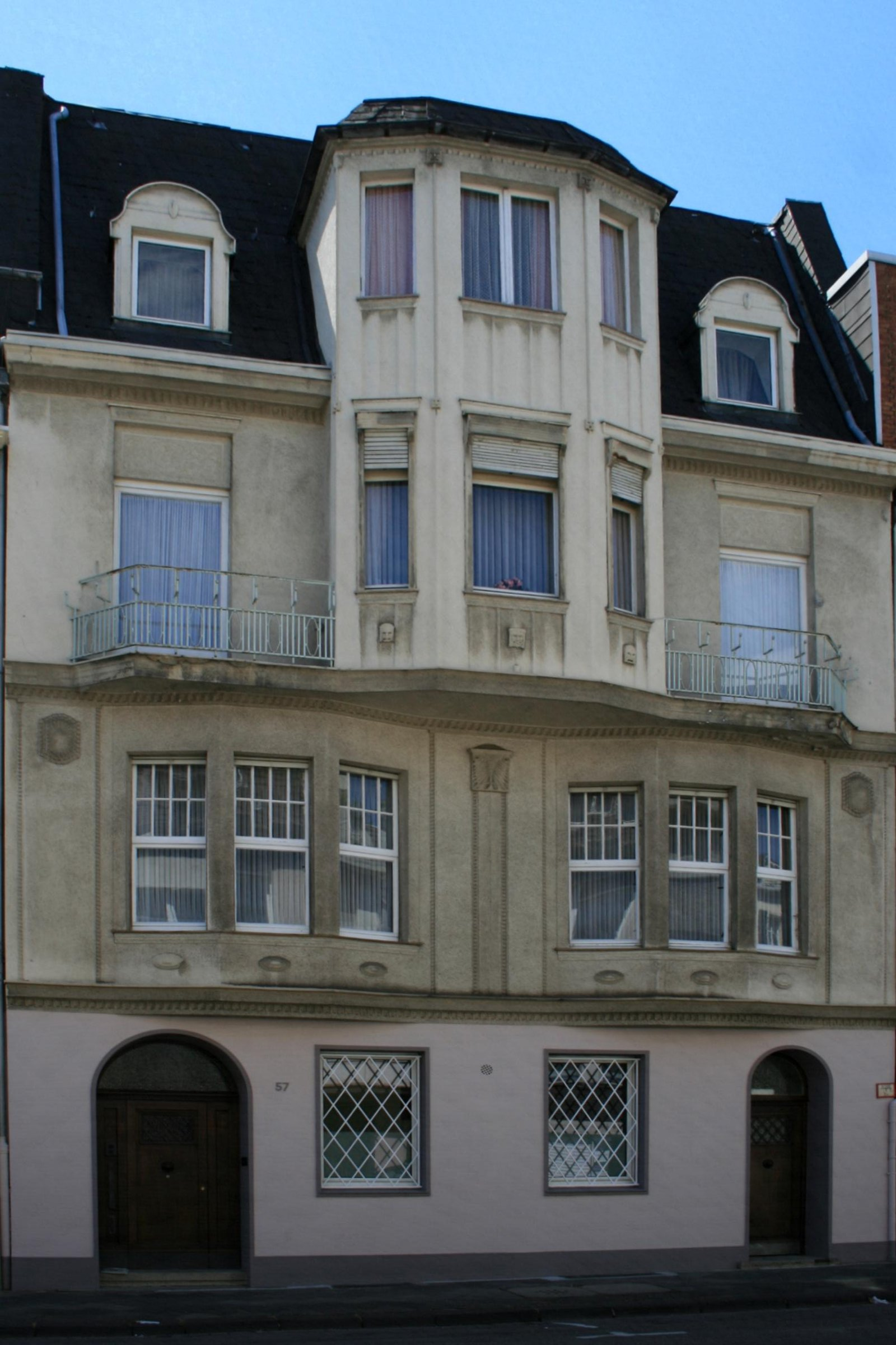 Cultural heritage monument No. Sch 041 in Mönchengladbach